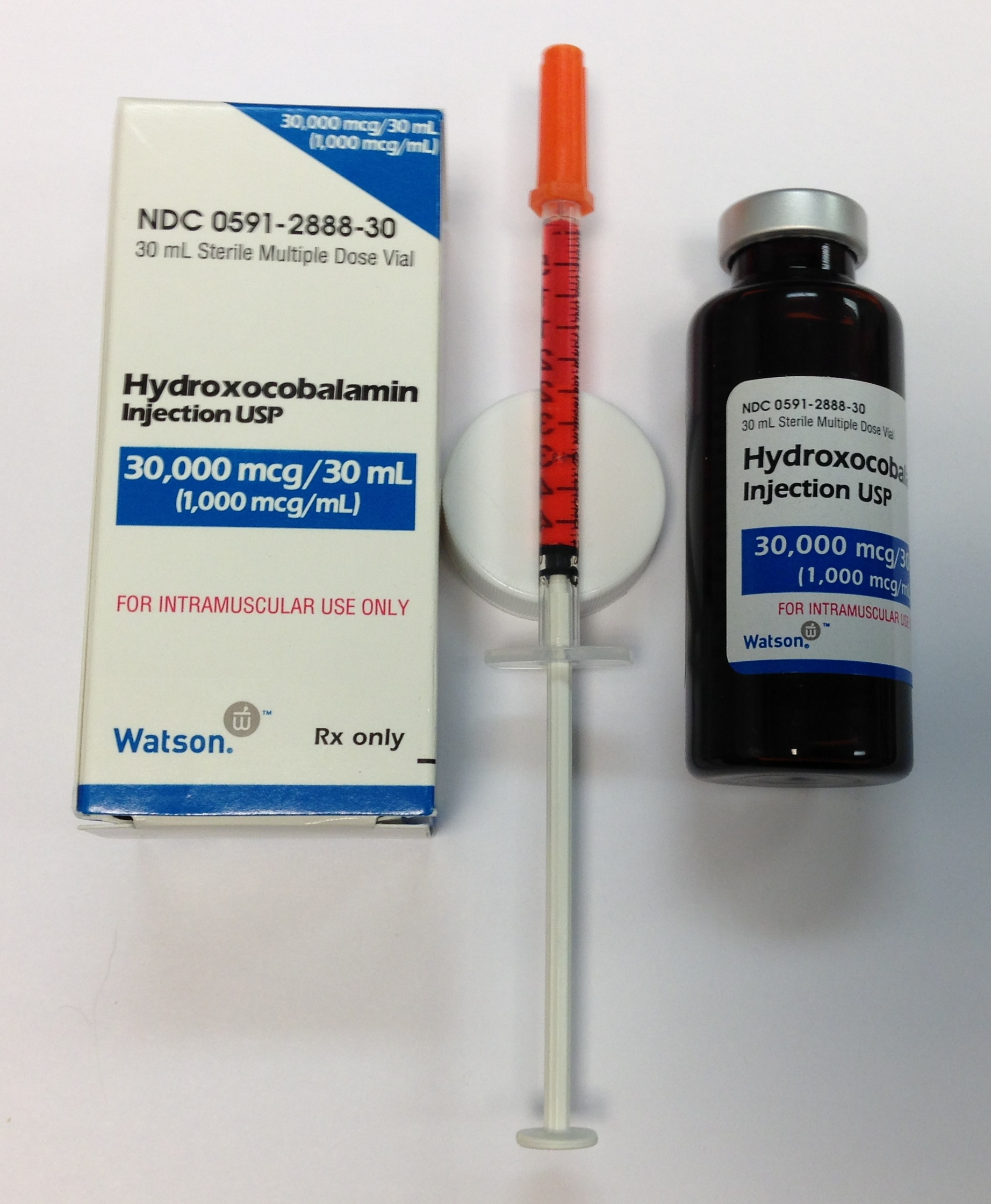 Hydroxocobalamin injection USP (1000 mcg/mL) is a clear red liquid which is available in a 30 mL brown glass multidose vial, in a cardboard box. A dose of 1/2 cc (500 mcg B-12) is shown here prepared for injection in a "50 U" U-100 insulin syringe.